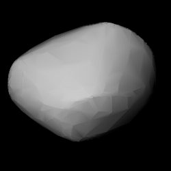 3D convex shape model of 1917 Cuyo, computed using light curve inversion techniques. J. Hanuš, J. Ďurech, M. Brož, B. D. Warner (June 2011). "A study of asteroid pole-latitude distribution based on an extended set of shape models derived by the lightcurve inversion method". Astronomy and Astrophysics 530: A134. ISSN 0004-6361. arXiv